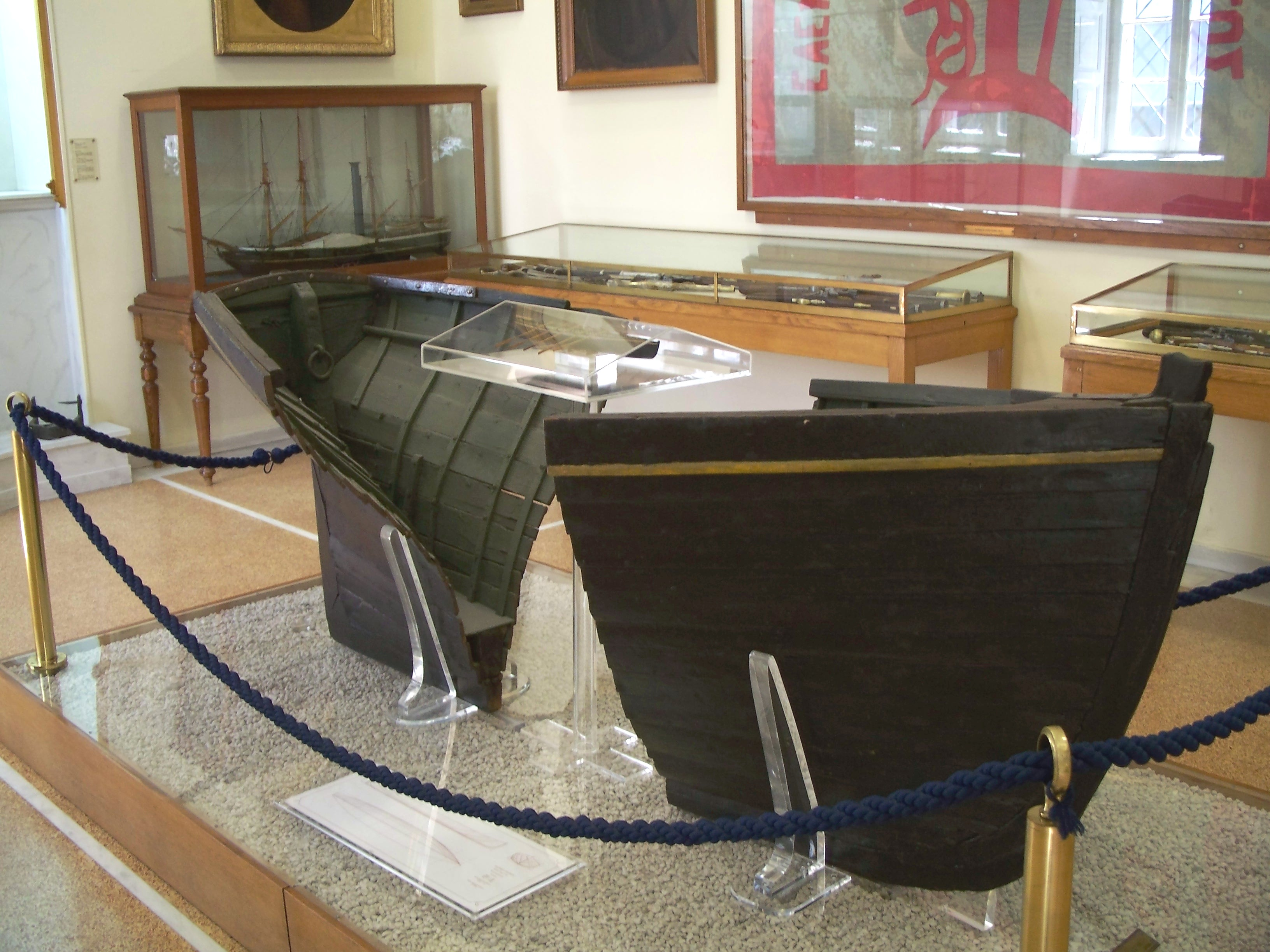 The boat that greek revolutionary admiral Andreas Miaoulis (Ανδρέας Μιαούλης)used to get away after the torhing of the greek fleet, as an act of opposition towards the Russians and Ioannis Kapodistrias. National Historical Museum, Athens, Greece.